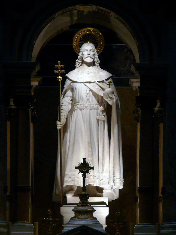 The Saint Stephen's Basilica in Budapest